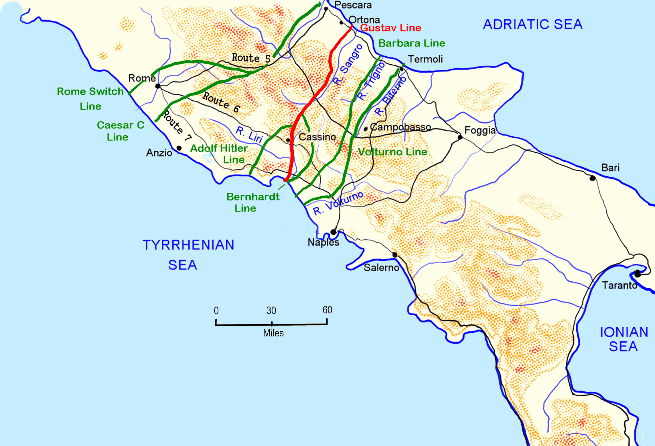 German prepared defensive lines in Italy south of Rome 1943-44